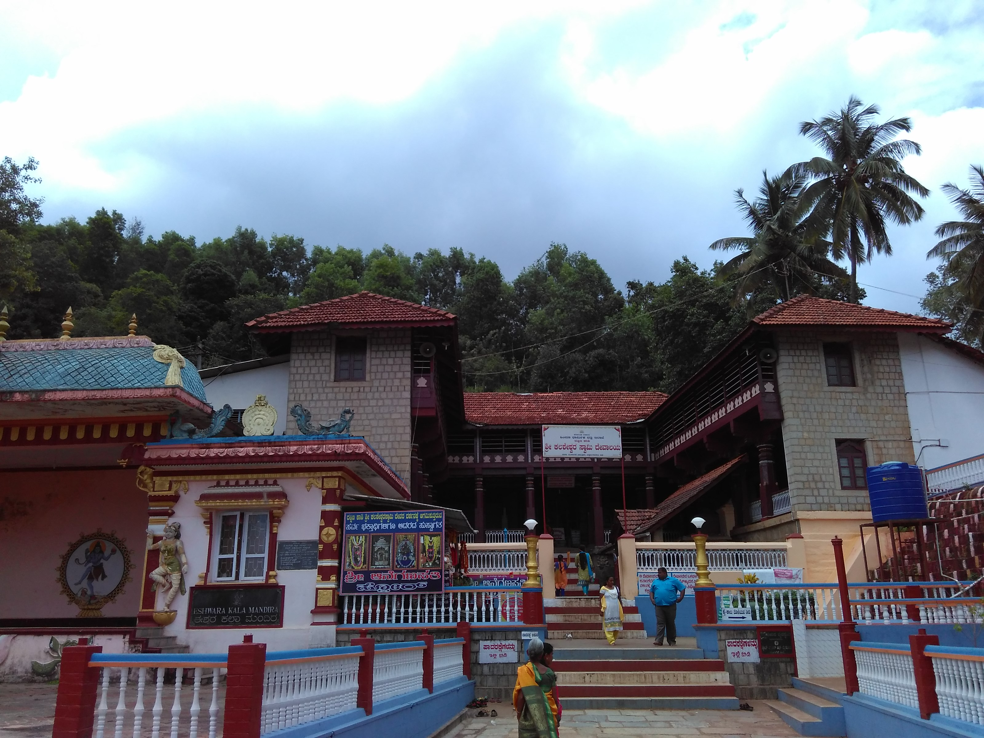 Small Hindu temple honoring Lord Shiva & offering panoramic views from its hilltop locale in Kalasa.